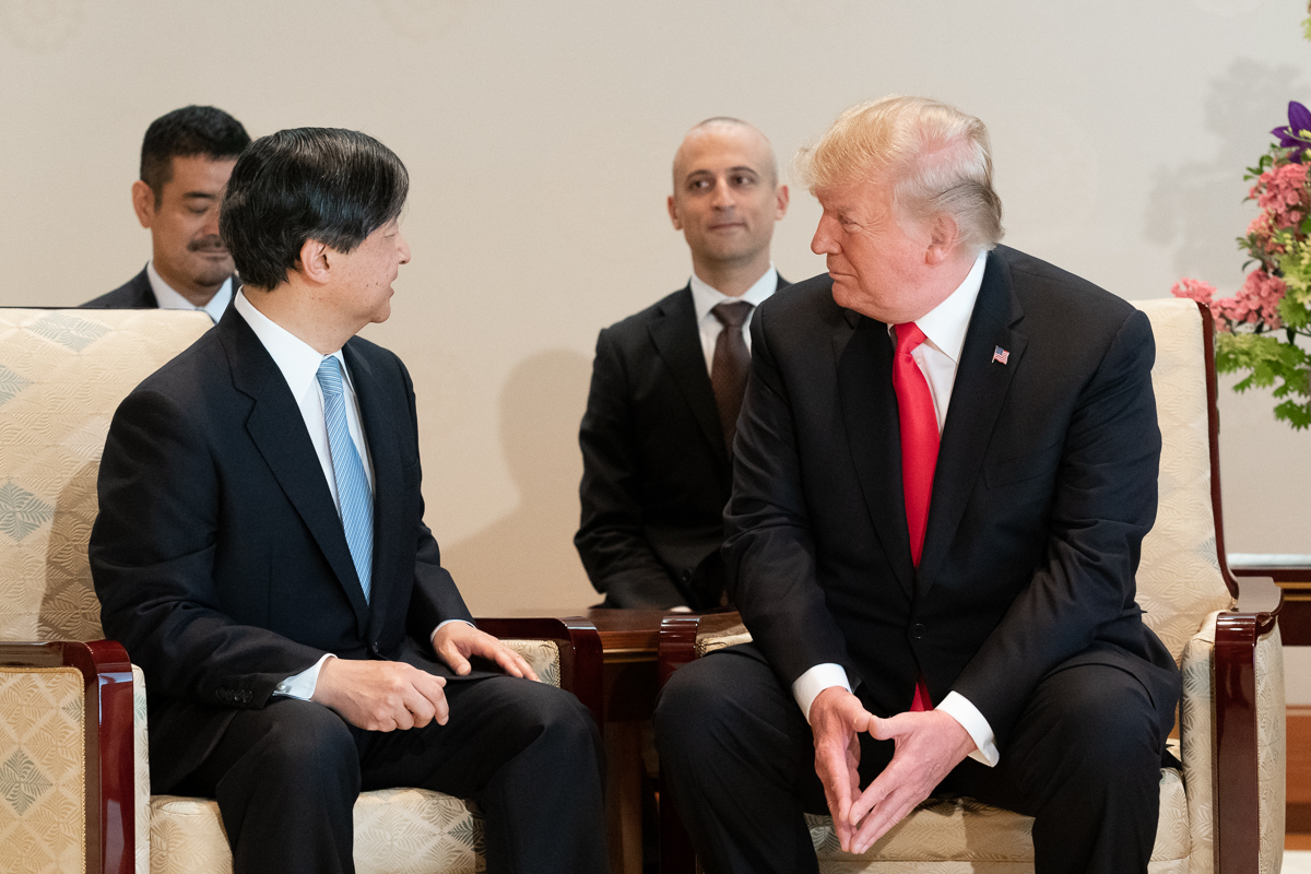 President Donald J. Trump speaks with Emperor Naruhito of Japan during a State Call to the Imperial Palace Monday, May 27, 2019, in Tokyo. (Official White House Photo by Andea Hanks)